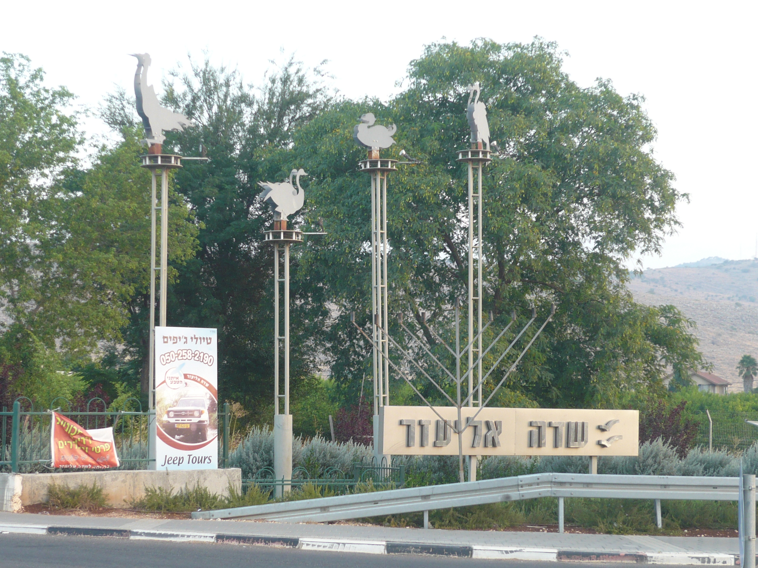 sde eliezer הכניסה למושב שדה אליעזר